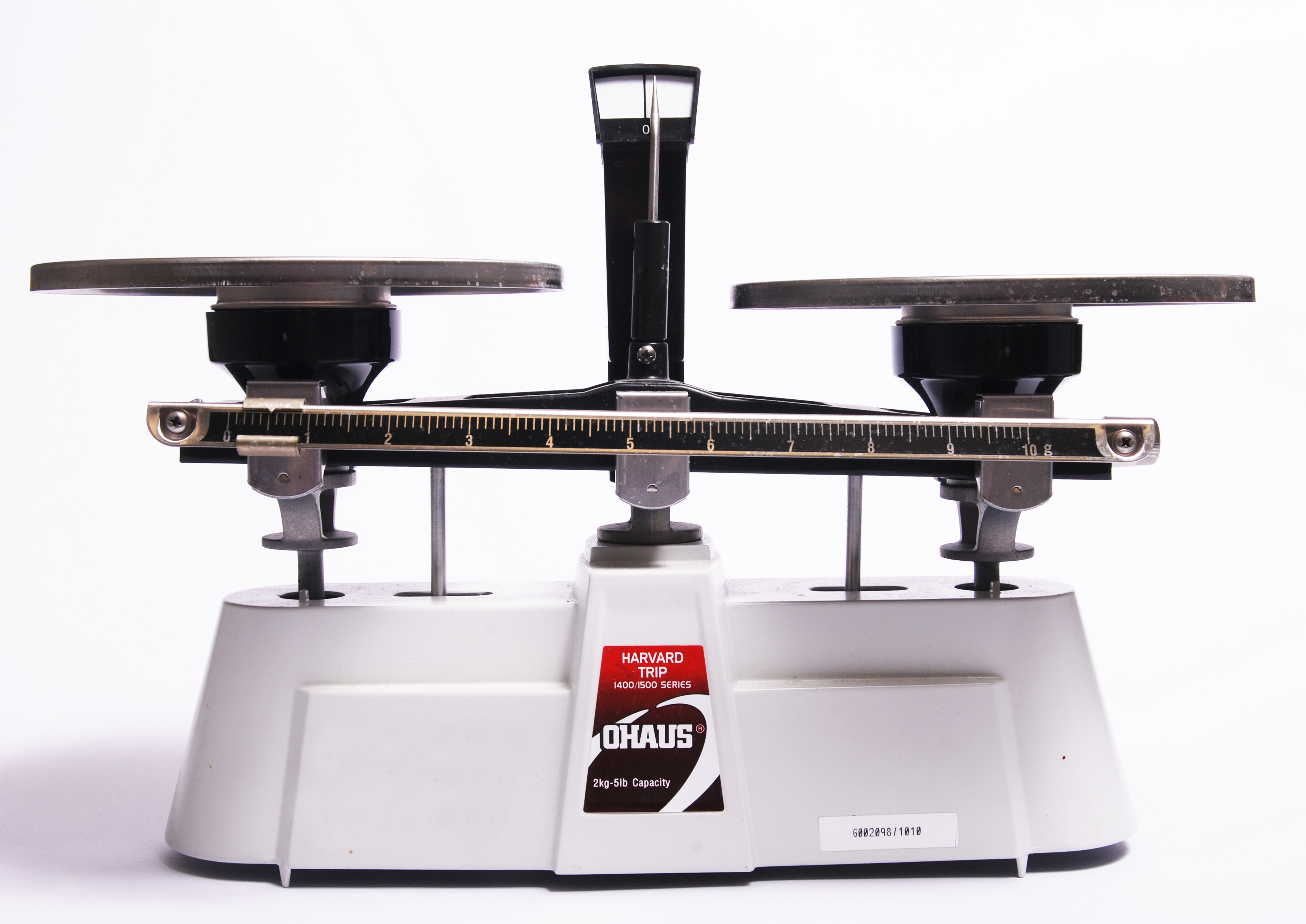 Simple laboratory scales for balancing tubes